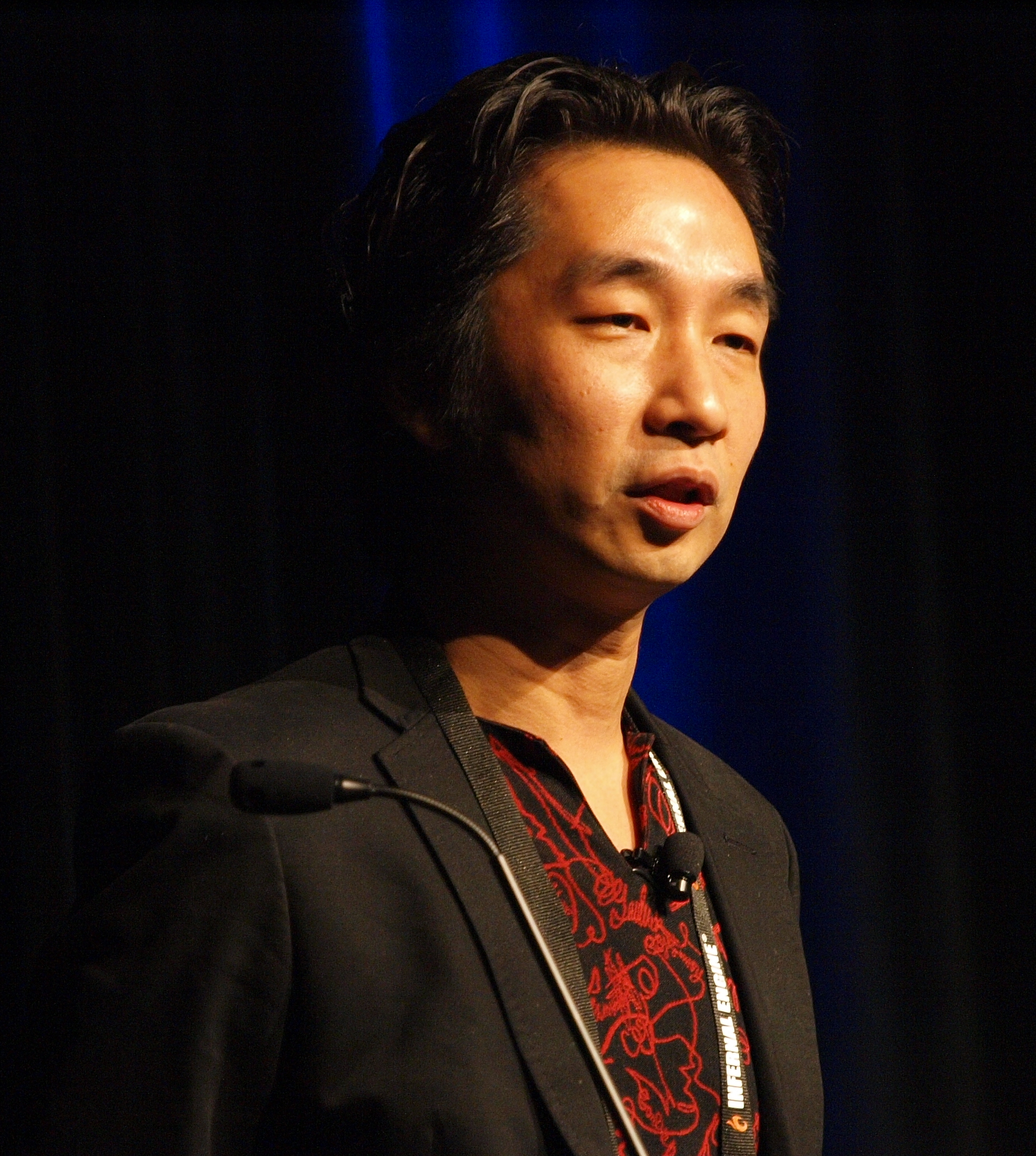 Akira Yamaoka at the Game Developers Conference in 2010 (third day), speaking at "As long as the audio is fun, the game will be too."